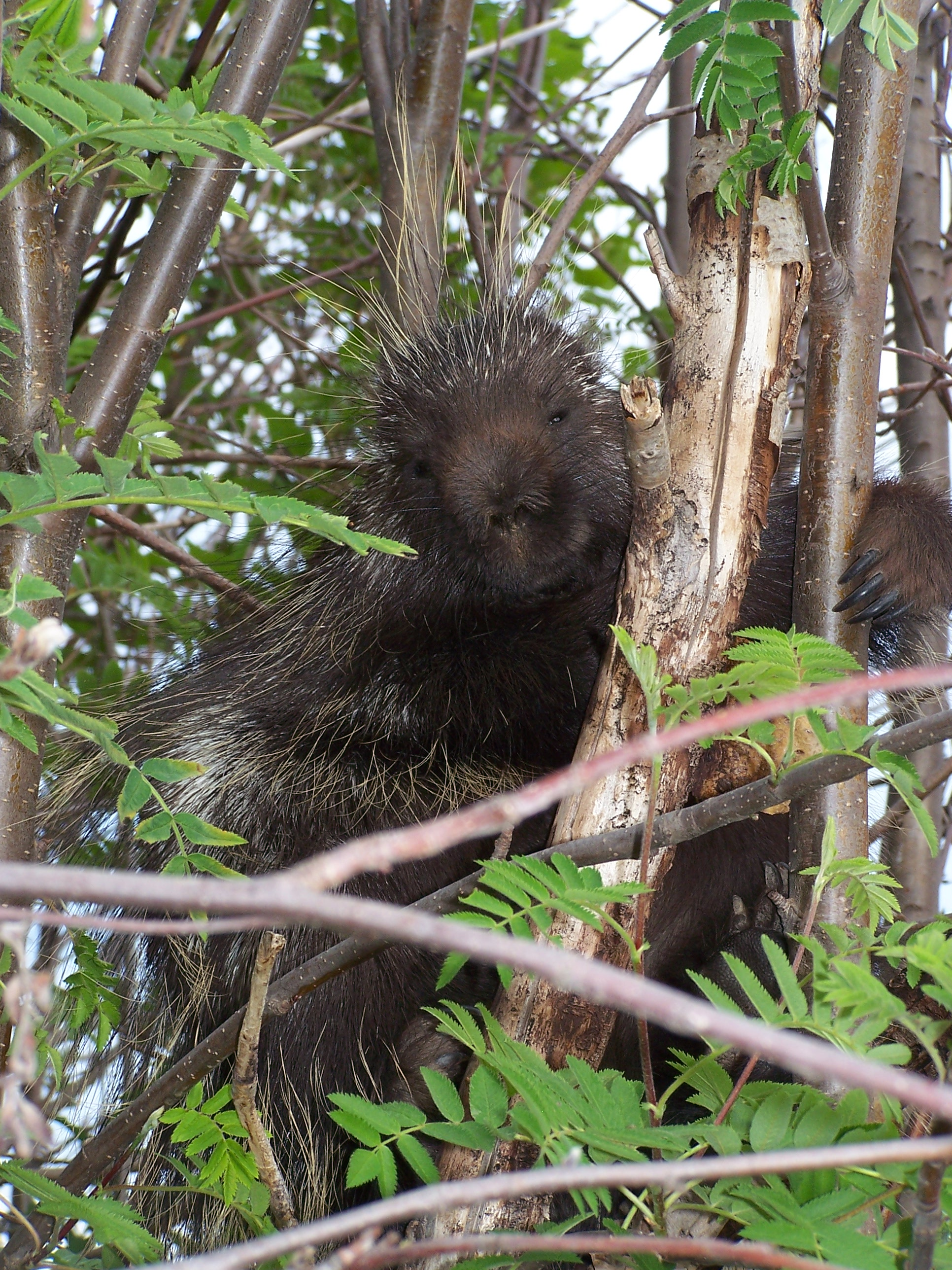 North American Porcupine